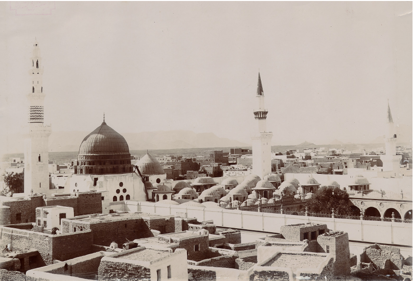 Medina; dome of the Prophet's Mosque